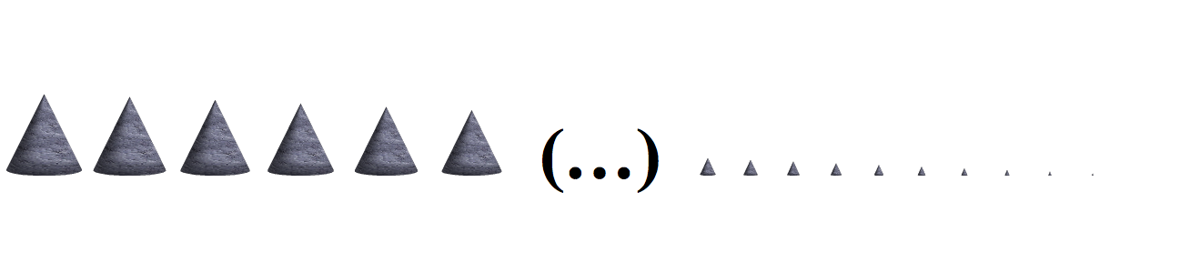 Illustration of the sorites paradox: 1 = 1+1 = 2+1 = ... + 1 = a giant heap[?] So 1 pebble = a giant heap[?]